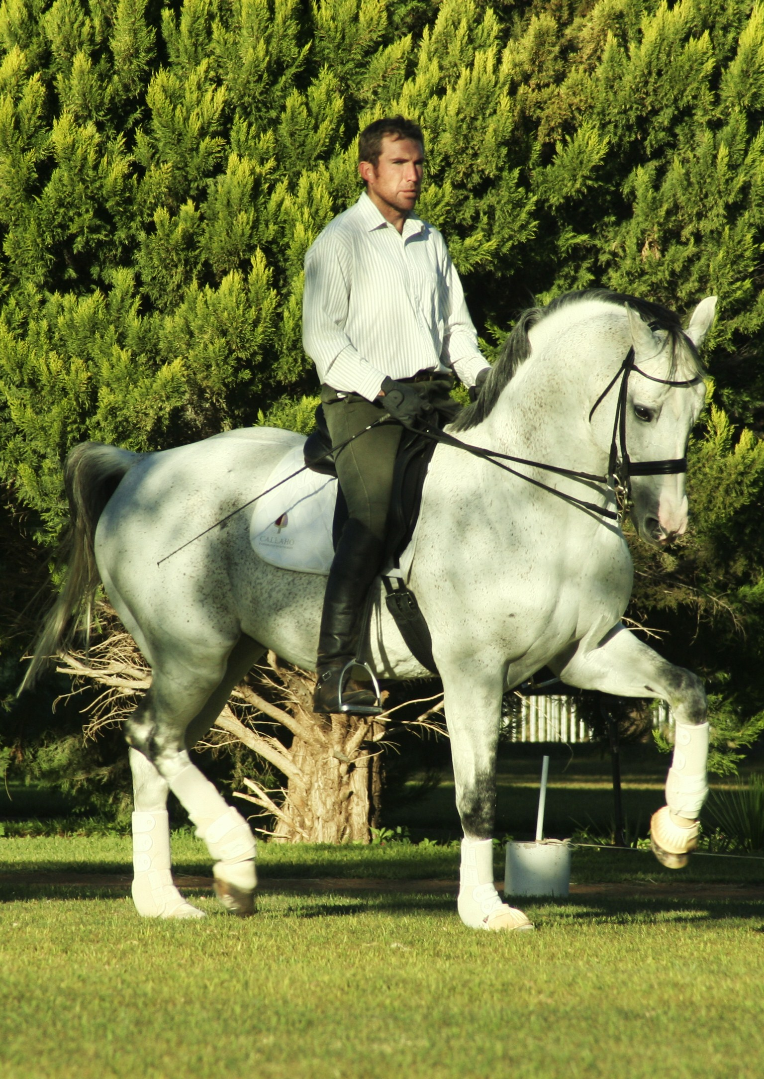 CALLAHO's Granulit ridden in dressage by Jaco Fourie in "Passage".